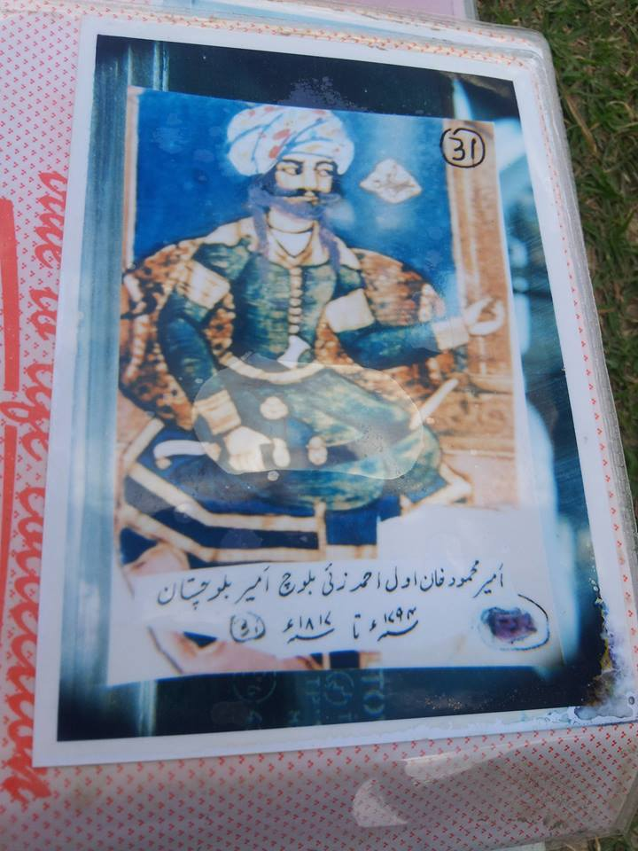 Mir Mahmud Khan Baloch I